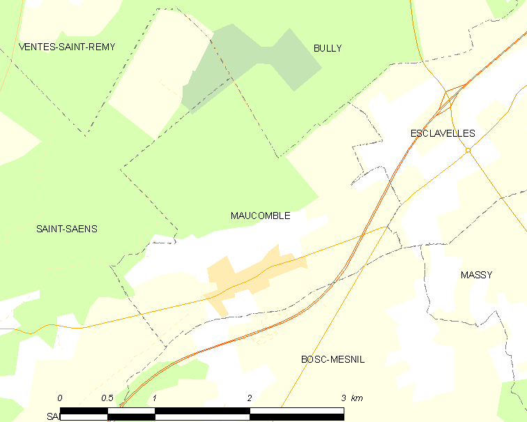 Map of French municipality Maucomble